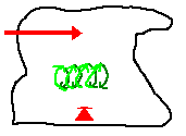 Development of mesocyclone - part 1